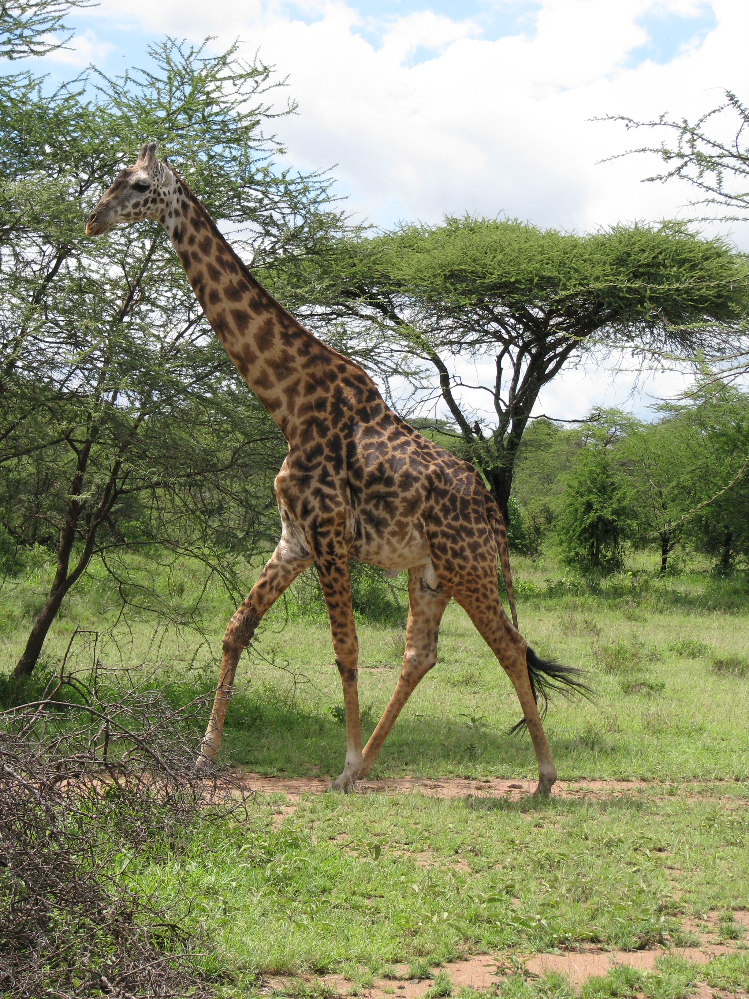 Giraffe at serengeti